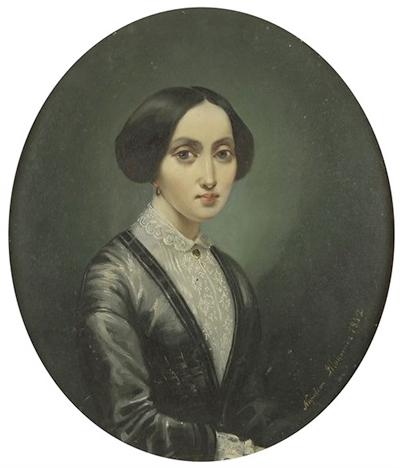 Portrait of a Lady